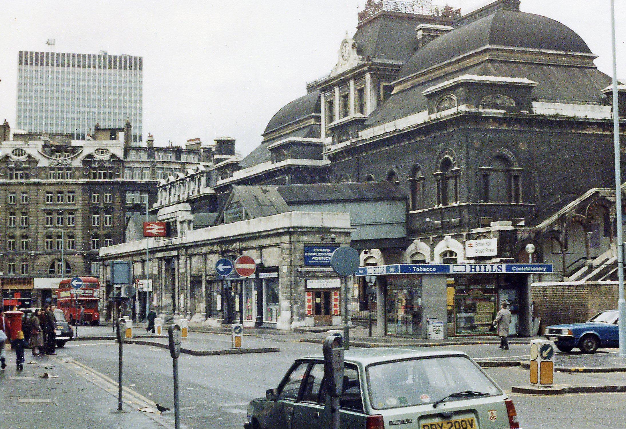 Broad Street station exterior, 1983. View NW on Liverpool Street: ex-North London City terminus. The station was now in 'terminal' decline and was closed three years later (30 June 1986) to be built over by the major Broadgate Centre.